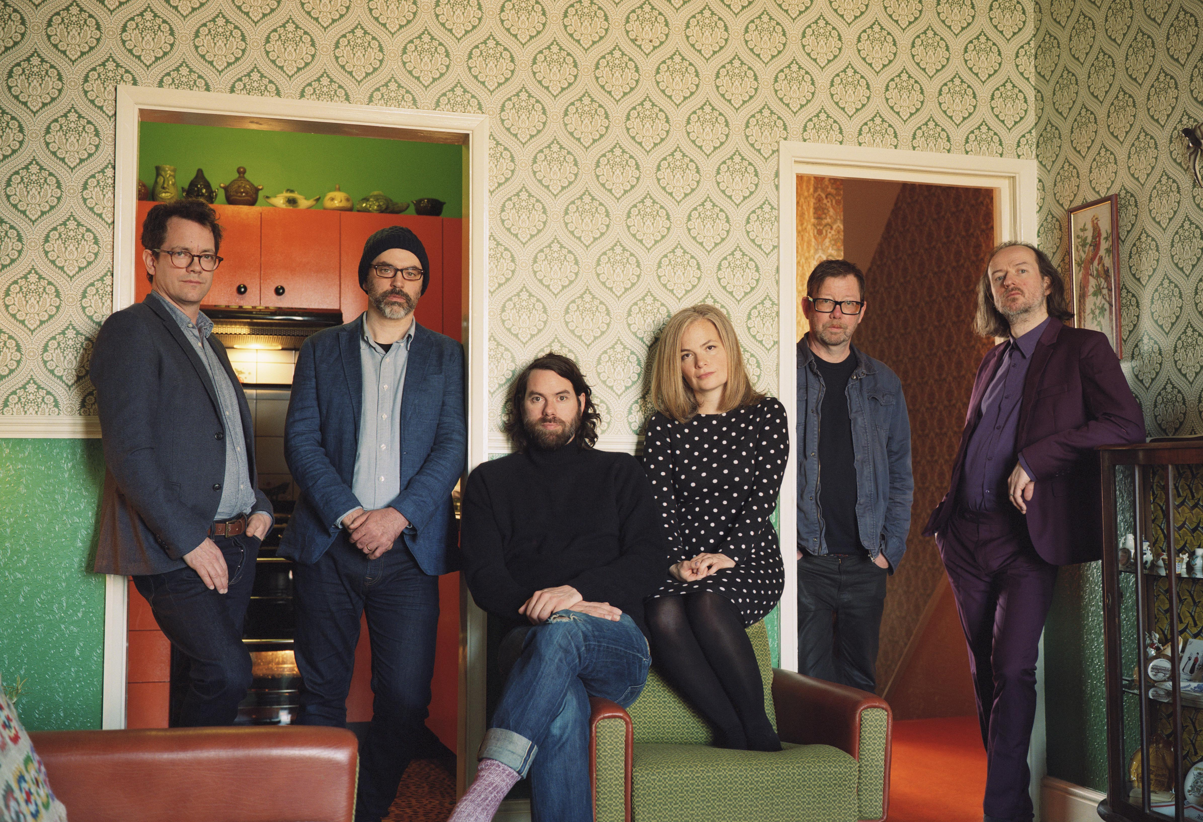 Tunng's original line-up